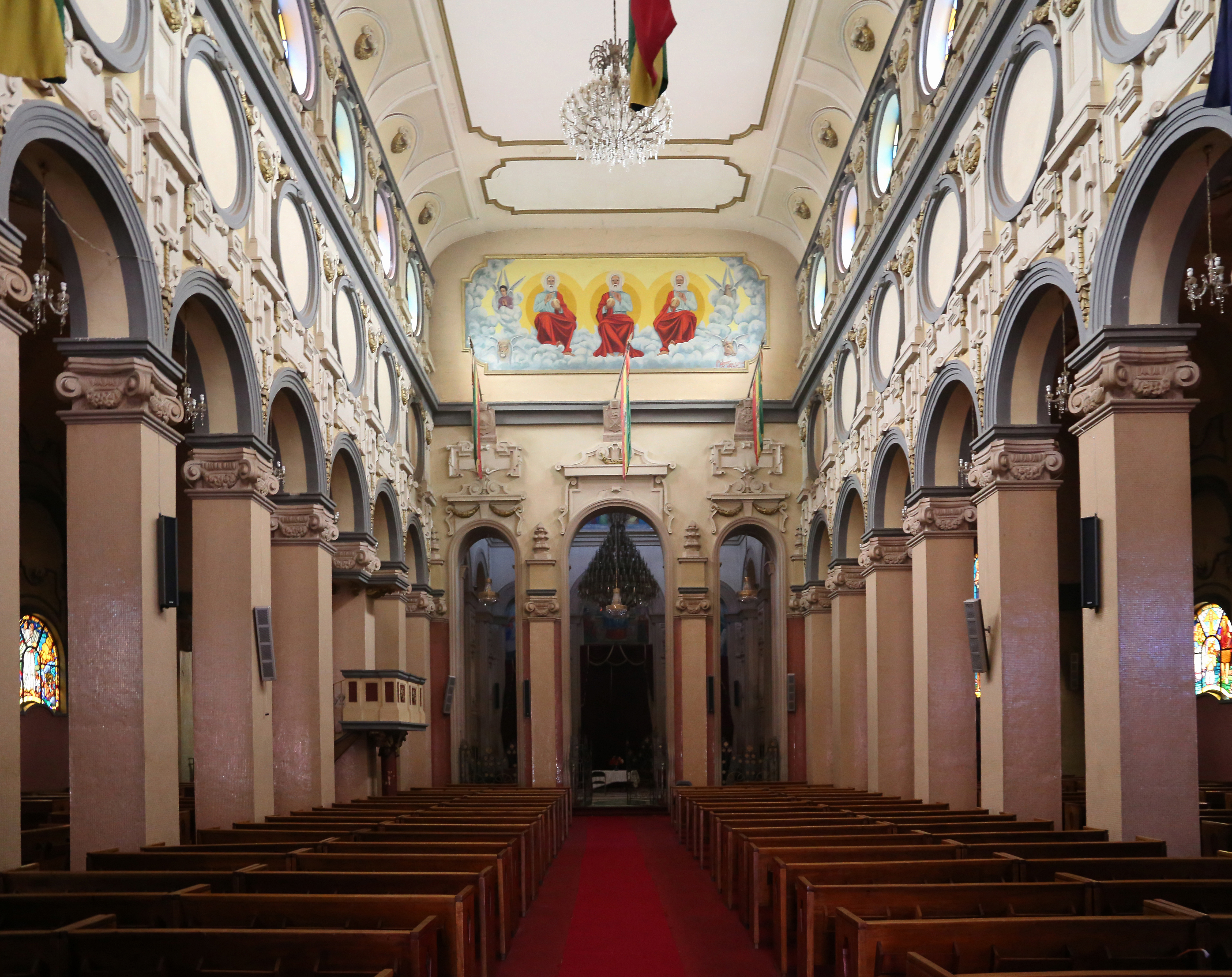 Holy Trinity Cathedral, Addis Ababa